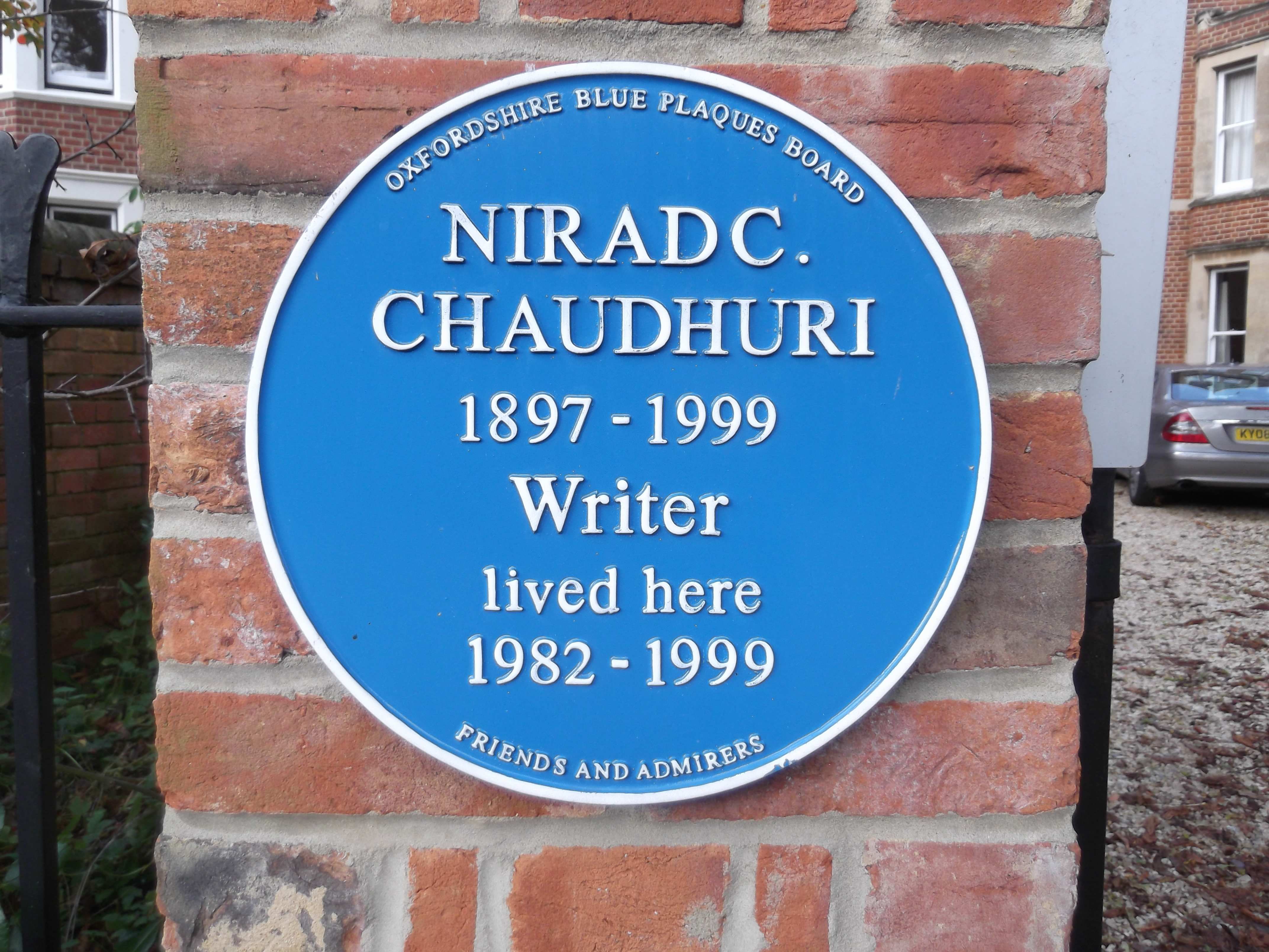 The Bengali author and broadcaster Nirad Chaudhuri (1897–1999) lived at 20 Lathbury Road, north Oxford, England. This blue plaque was installed by the Oxfordshire Blue Plaques Board in 2008.